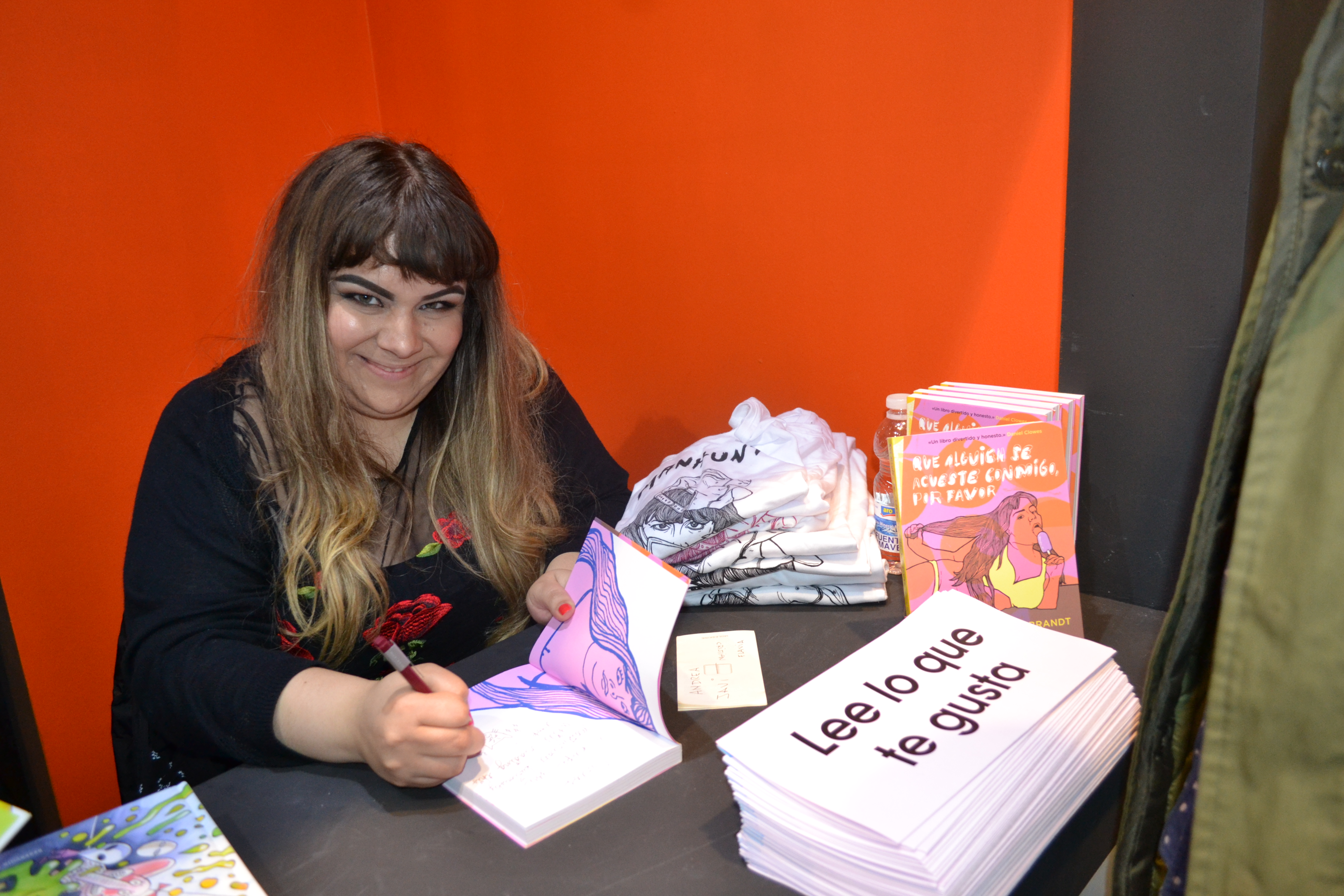 Gina Wynbrandt at the 35th Barcelona Comics Salon in 2017